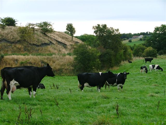 New Holly Moor Coal Mine Spoil Tip. New Holly Moor Mine operated in the 1930's and produced coal for household and steam.